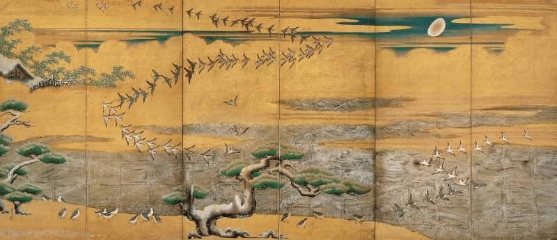 Waterfowl of the winter beach in a six-leaf screen(left panel). Important Cultural Properties of Japan